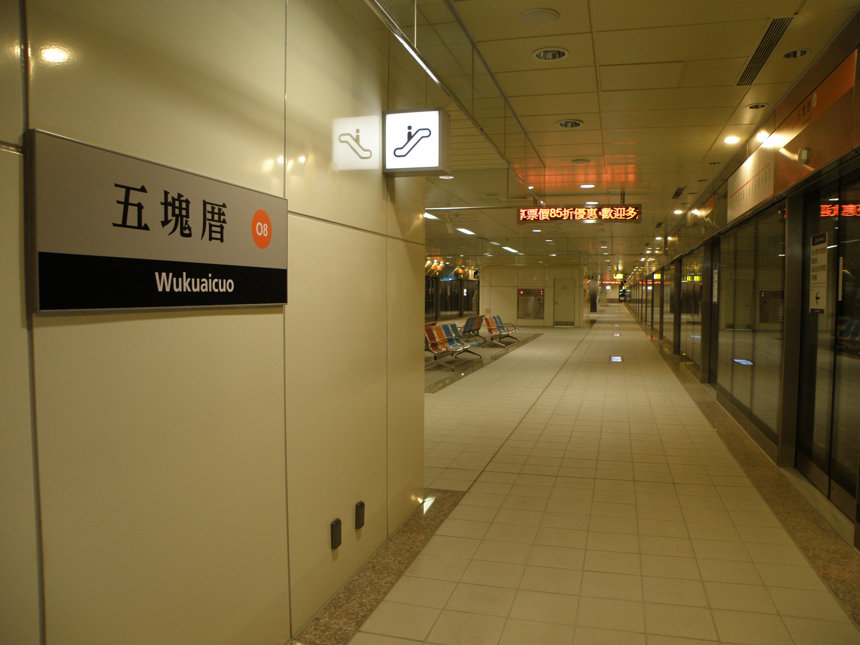 Platform of Wukuaicuo Station, Kaohsiung Mass Rapid Transit